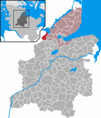 Locator maps of municipalities in Schleswig-Holstein - District Rendsburg-Eckernförde